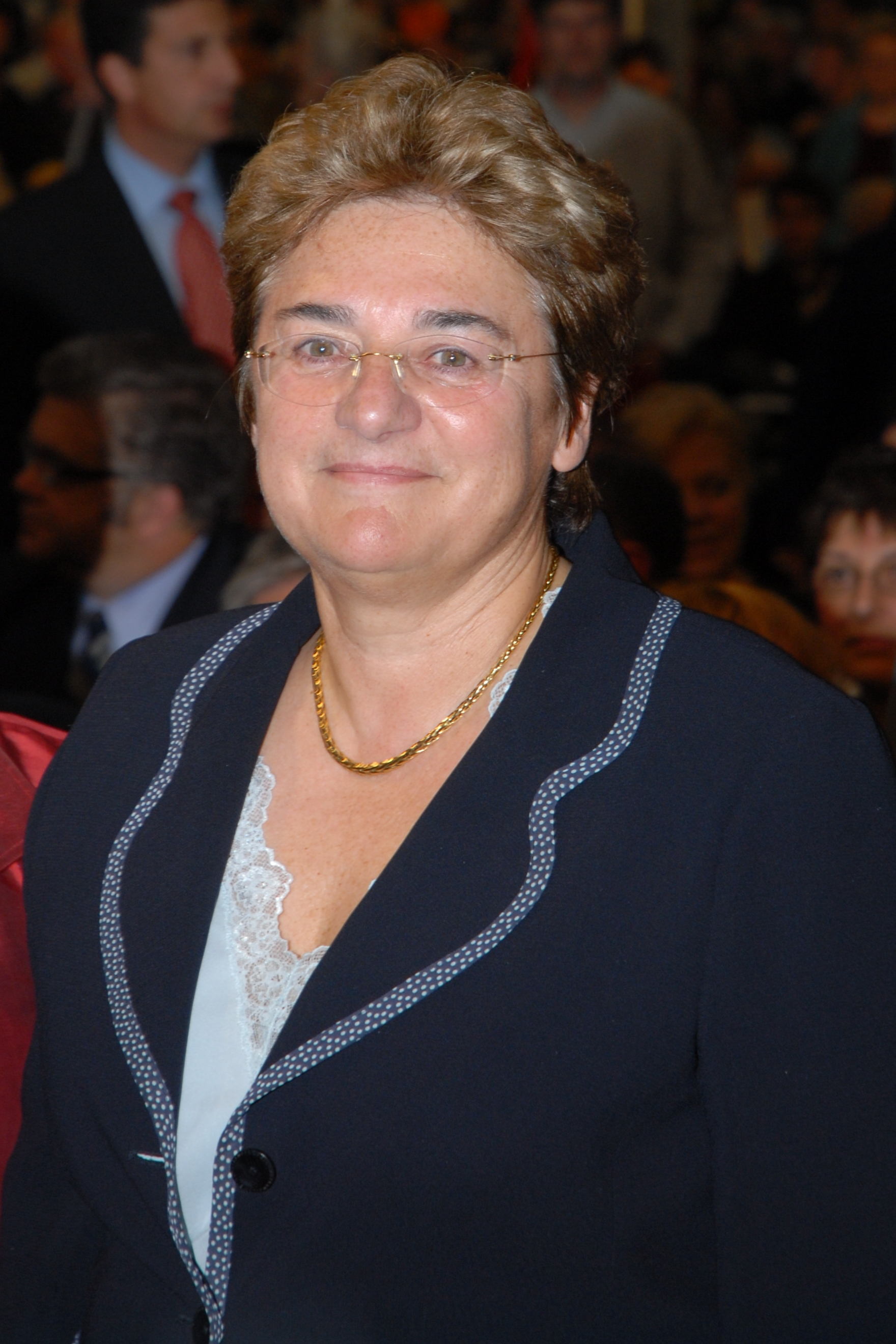 Marie-Hélène des Esgaulx during Nicolas Sarkozy's meeting in Toulouse on April, 12th 2007 for the 2007 presidential election.